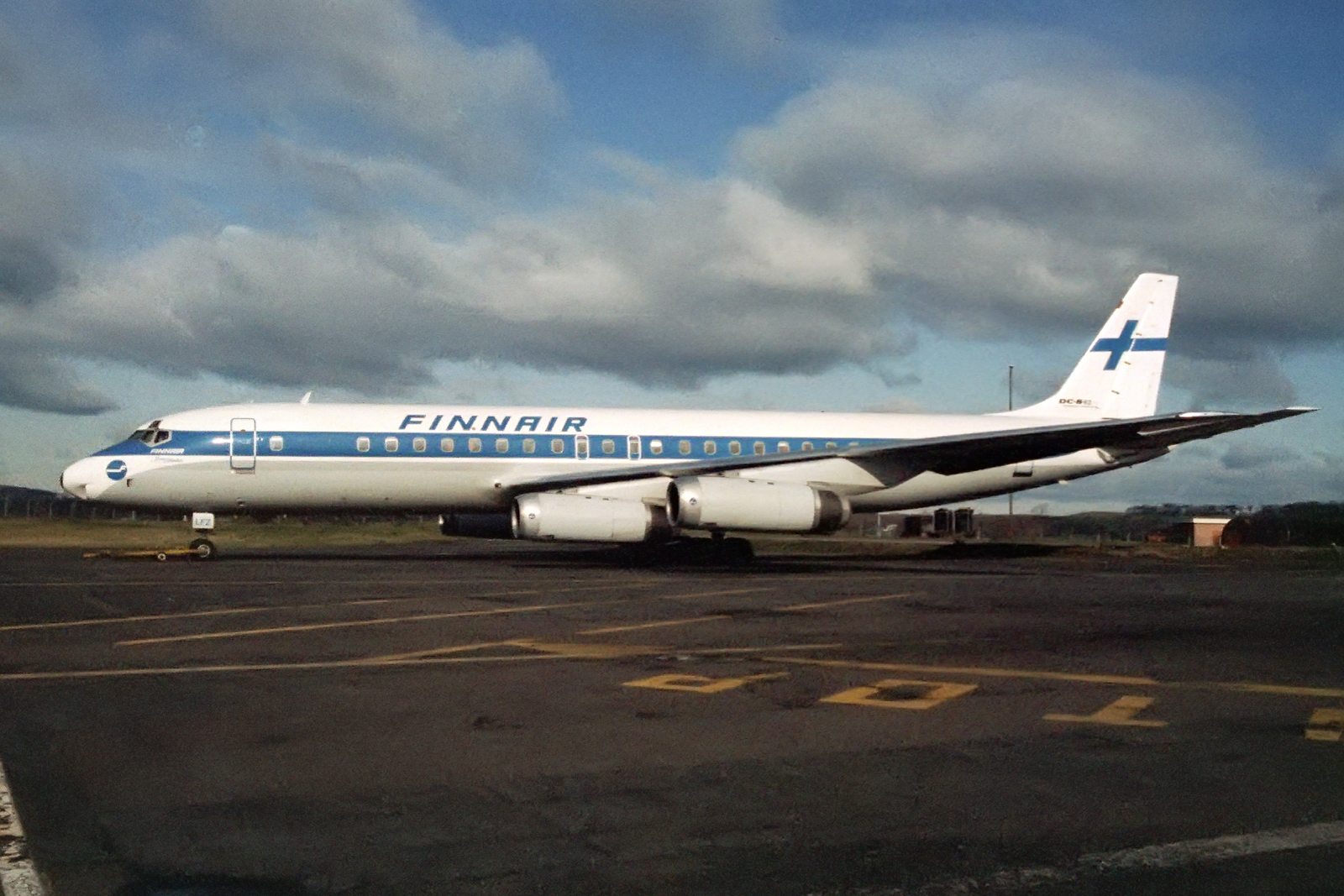 EDI - Parked on a remote stand at the old Turnhouse ramp. This DC-8 started life with UTA French Airlines.